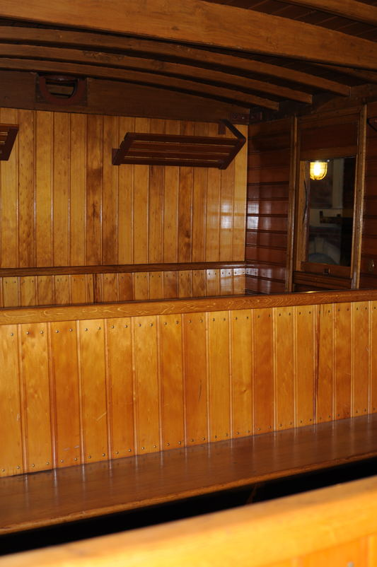 Third class interior of railway coach SS C 218 in the Dutch railway museum.